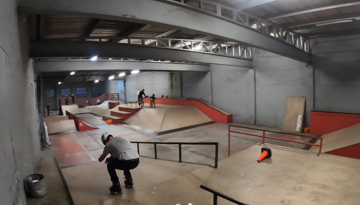 Rampworx skatepar in Aintree, Liverpool.